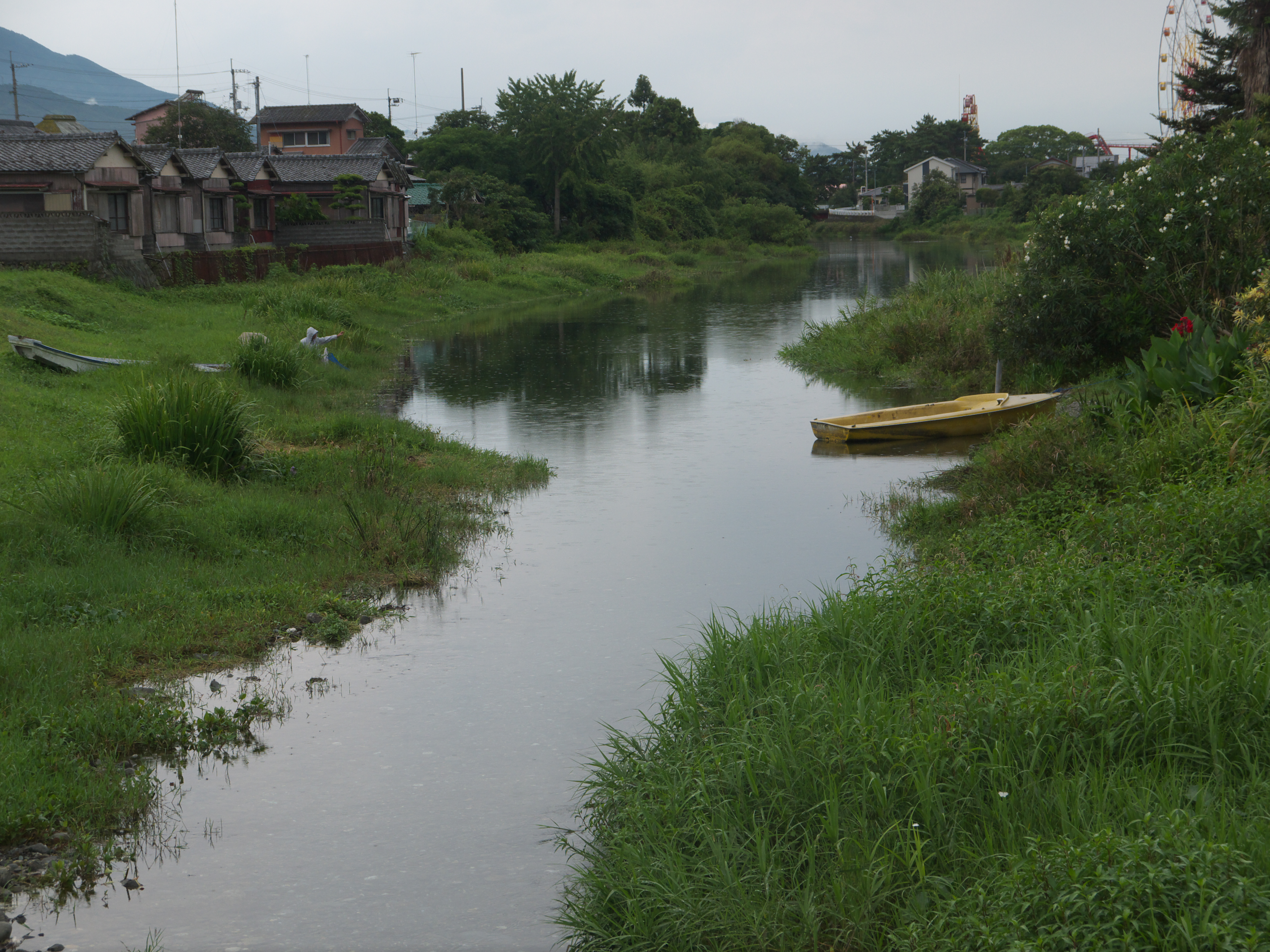 Lower part of Go River in Tokushima Prefecture, Japan